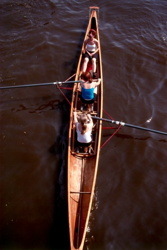 Rowing in the Amstel river, Amsterdam, The Netherlands